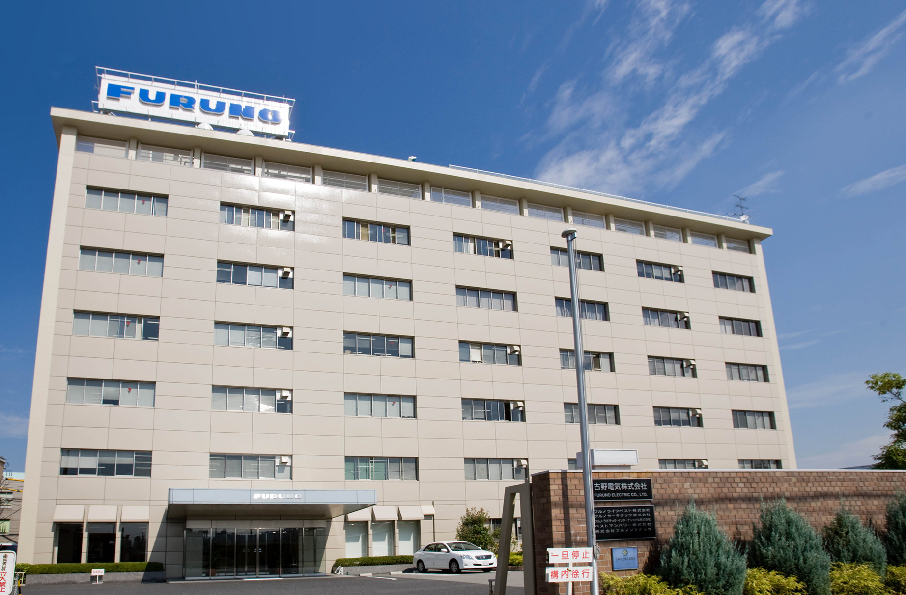 FURUNO ELECTRIC CO., LTD.